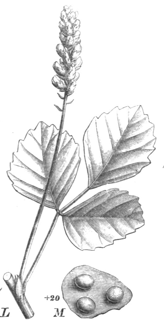 Illustration from book